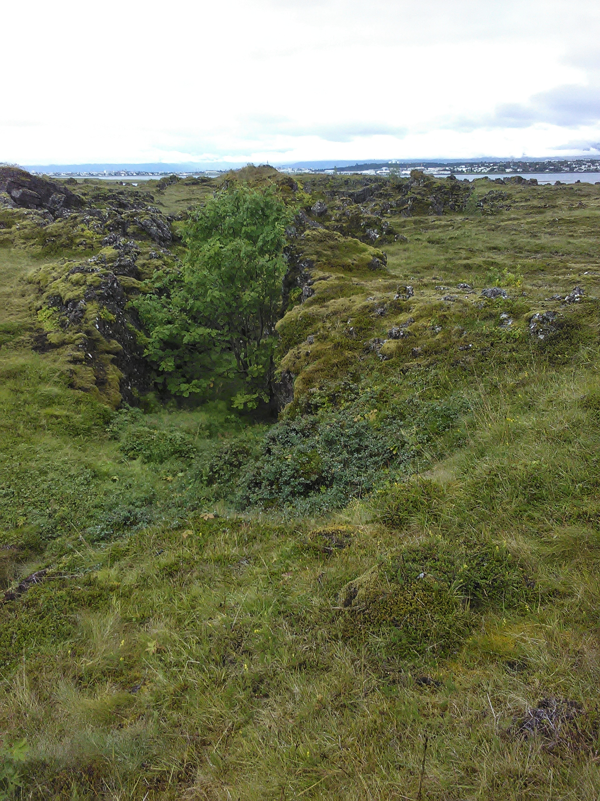 Galgahraun, near Reykjavík, Iceland